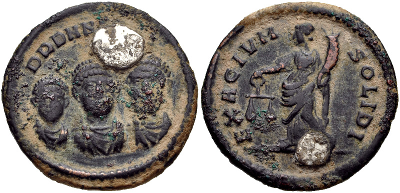 Theodosius I, with Arcadius & Honorius. Circa AD 402-408. Æ Exagium Solidi Weight (22mm, 4.45 g, 6h). DDD NN[N AVGGG], diademed and draped facing busts of Honorius, Theodosius, and Arcadius respectively EXACIVM SOLIDI, Moneta standing left, holding scales and cornucopia. During the later Roman Empire, coin weights began appearing with the legend exagium solidi, a phrase which has often been translated as “the weight (or weighing) of a solidus”, in order to deal with the practice of clipping. Exagium derives from the Latin exigere (lit. “to drive out”). However, extant examples of these weights vary and some weigh much less than the 4.5 g of a full-weight solidus. These lighter weights are thought to possibly represent the lowest acceptable weight for aurei, and were used to withdraw under-weight solidi from circulation and thereby maintain an acceptable weight standard minimum for solidi to circulate at full value.